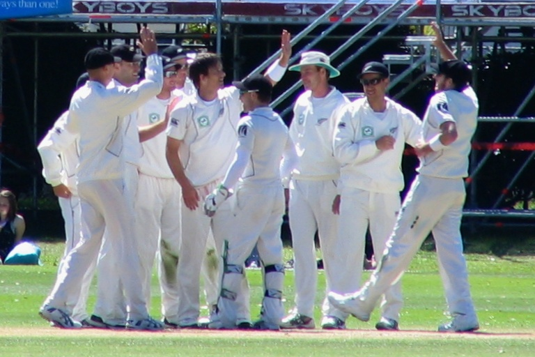 Ten members of the New Zealand cricket team celebrate Shane Bond's dismissal of Shoaib Malik, during a test match between Pakistan and New Zealand at the University Oval in Dunedin, New Zealand.